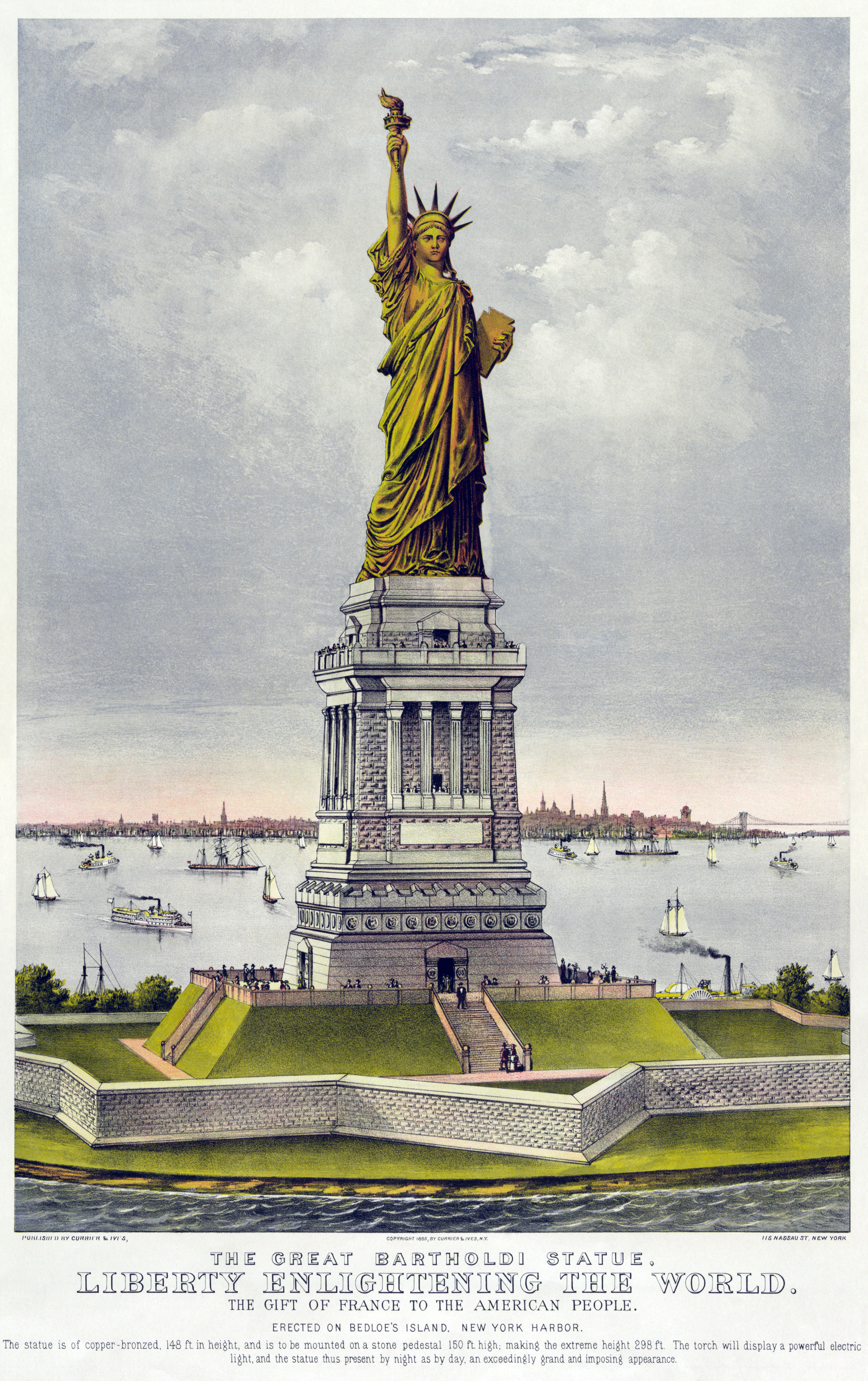 The great Bartholdi statue, liberty enlightening the world: the gift of France to the American people. 1 print : chromolithograph. Speculative depiction published the year before the statue was erected. In this depiction the statue faces south; it actually faces east.